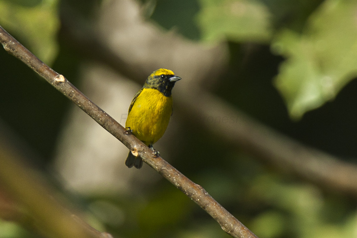 Yellow-crowned Euphonia - Panama_H8O8633